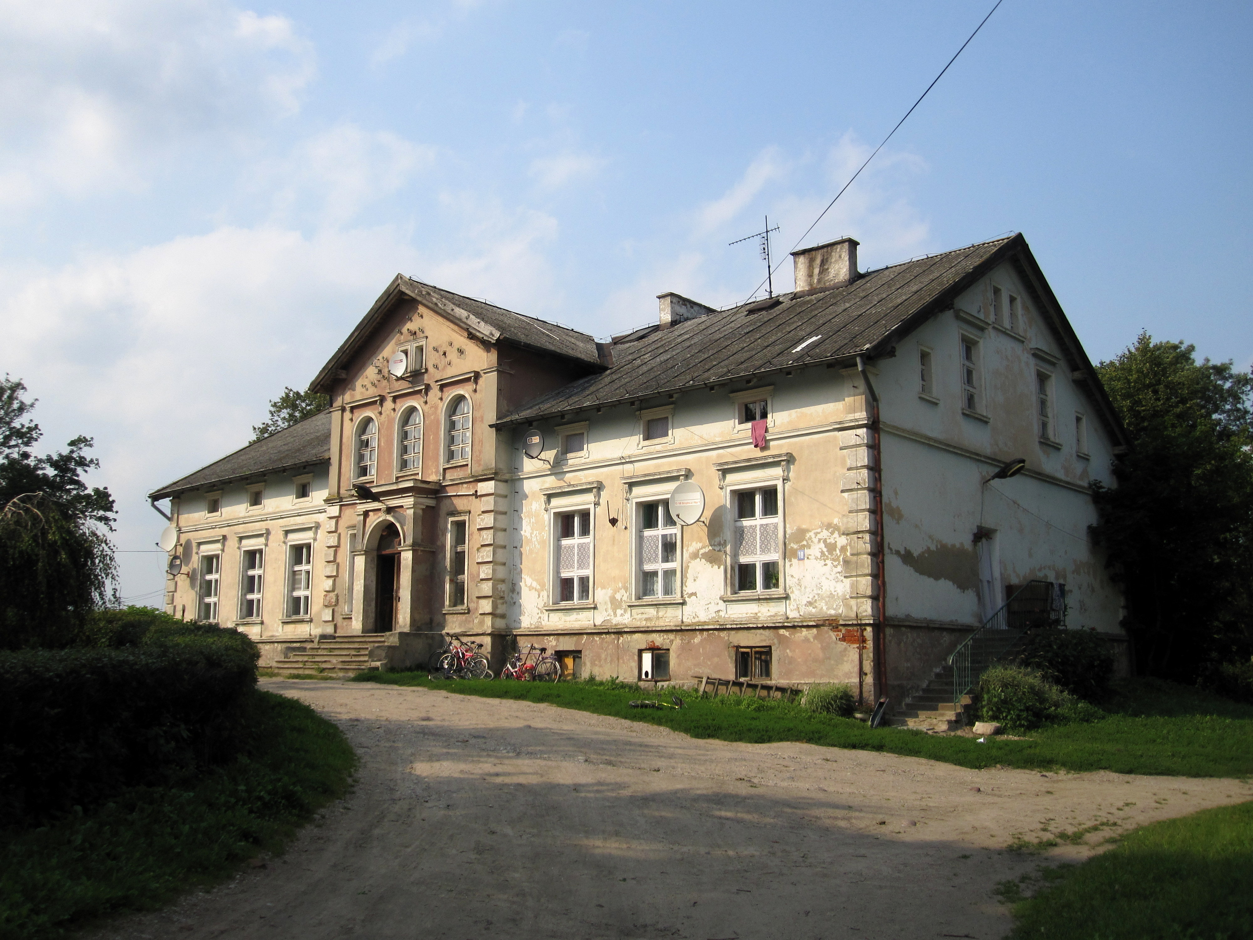 Manor house in Rozogi (powiat mrągowski)